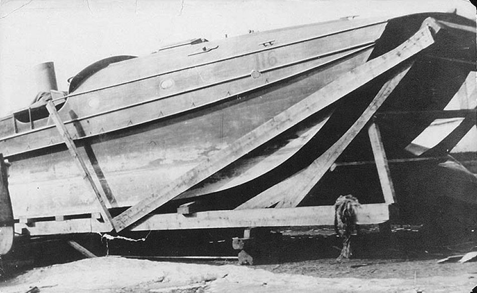 Photo #: NH 100220 USS Bab (SP-116) Hauled out of the water during World War I. A "sea sled" type motor boat built in 1916, Bab was reported delivered to the Navy on 6 October 1917 and reported returned to her owner on 31 December 1918. U.S. Naval Historical Center Photograph.